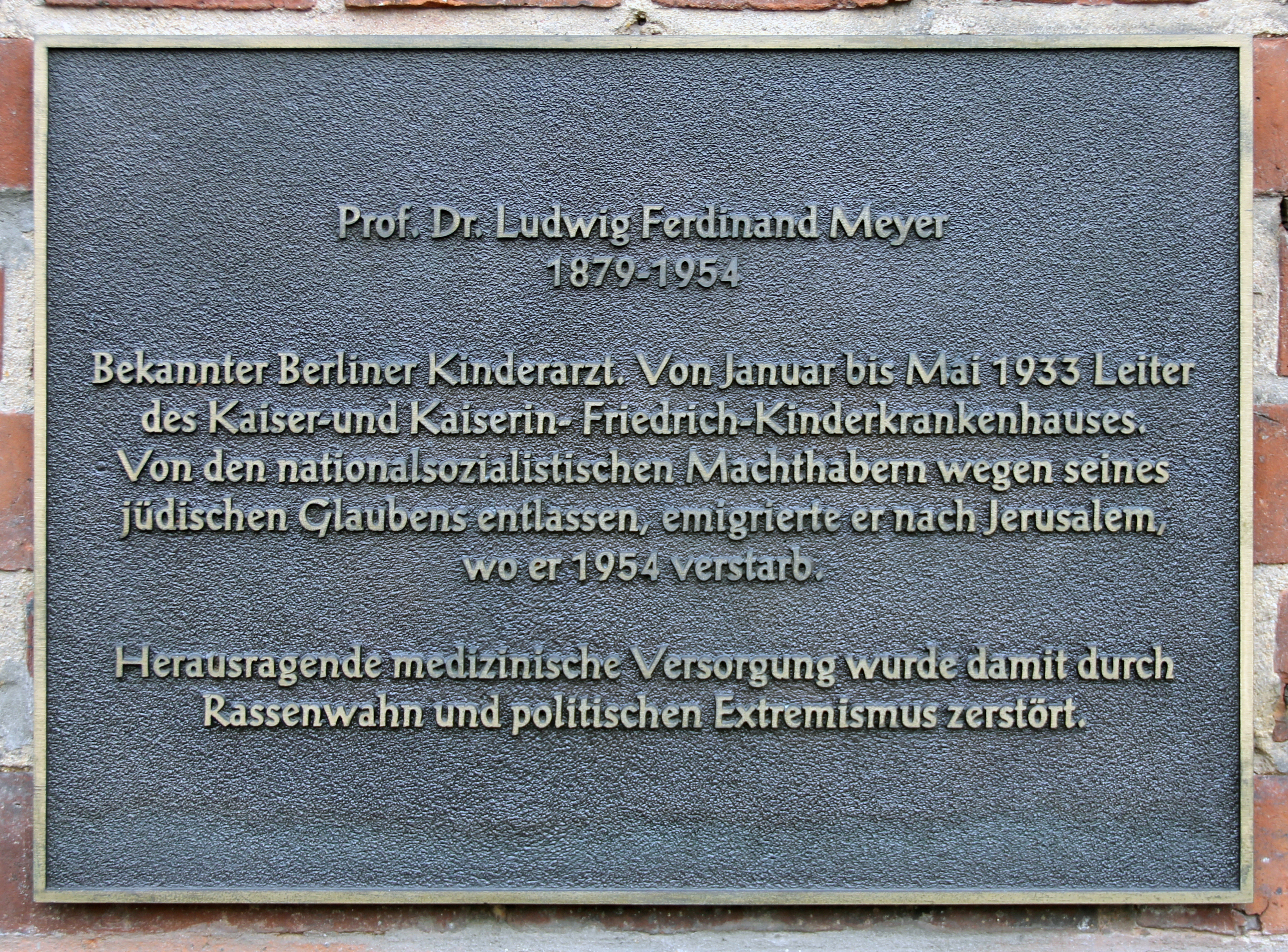 Memorial plaque, Ludwig Ferdinand Meyer, Reinickendorfer Straße 61, Berlin-Wedding, Deutschland